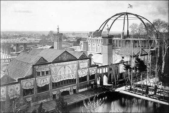 The late 19th centuy or early 20th century (Qajar Era). An old photograph of Tekyeh Dowlat and Badgir Mansion at Golestan Palace, Tehran, Iran